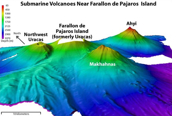 Bathymetry around Farallon de Pajaros, in the Marianas, Pacific Ocean.